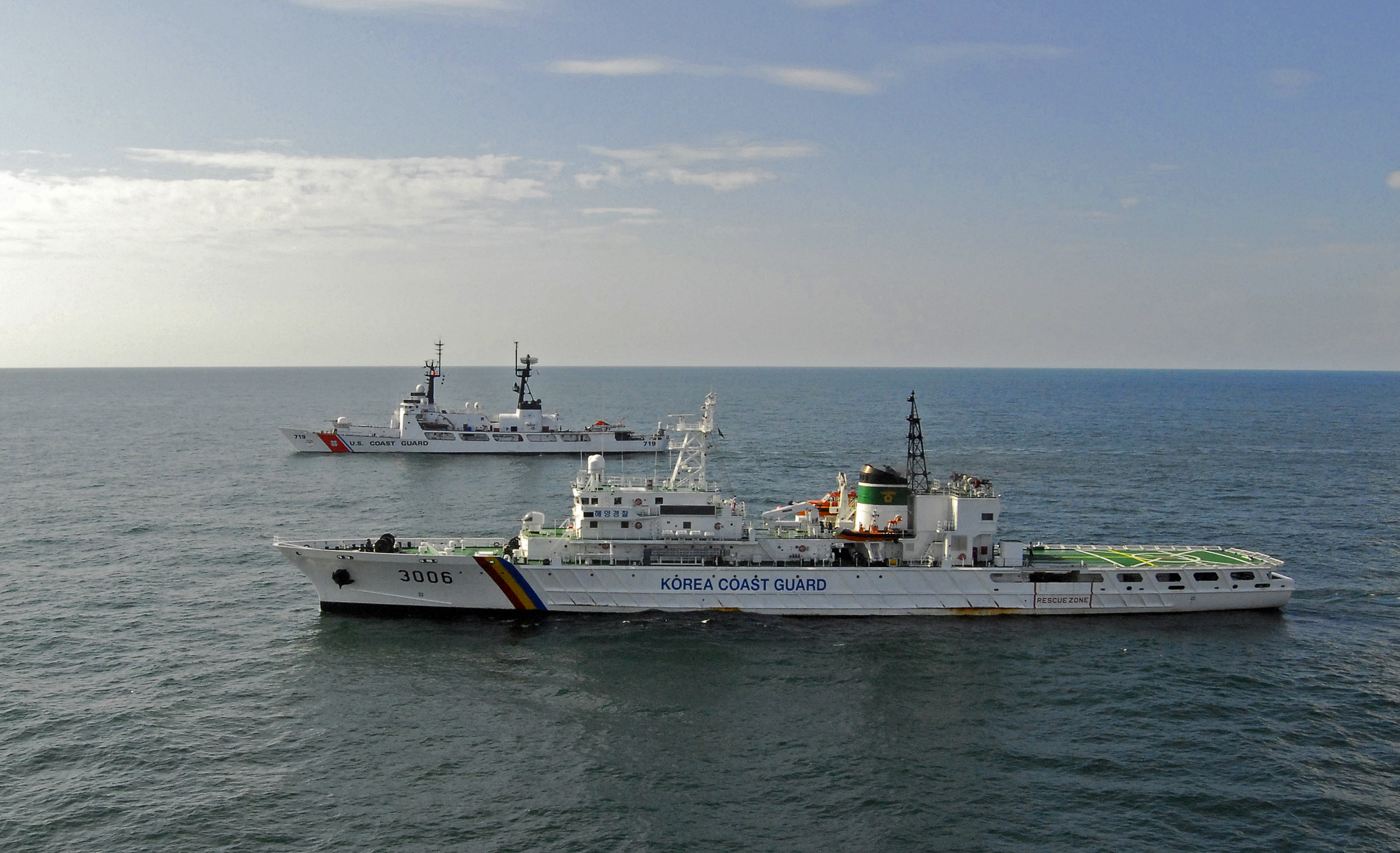 Republic of Korea Coast Guard vessel #3006 in company with U.S. Coast Guard cutter USCGC Boutwell (WHEC-719) during the North Pacific Coast Guard Forum in August 2007. This forum was created to increase international maritime safety and security in the Northern Pacific Ocean and its borders. The Boutwell worked with the Korean coast guard while on their way to Yokosuka, Japan. The Japanese coast guard is one of the six nations involved in the forum.